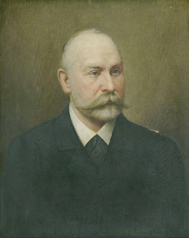 W. Jos. Sommer: Portrait Hubert Jacob Esser 1893. Niedersächsische Staats- und Universitätsbibliothek Göttingen , Schlözer-Stiftung Gegenstände 71